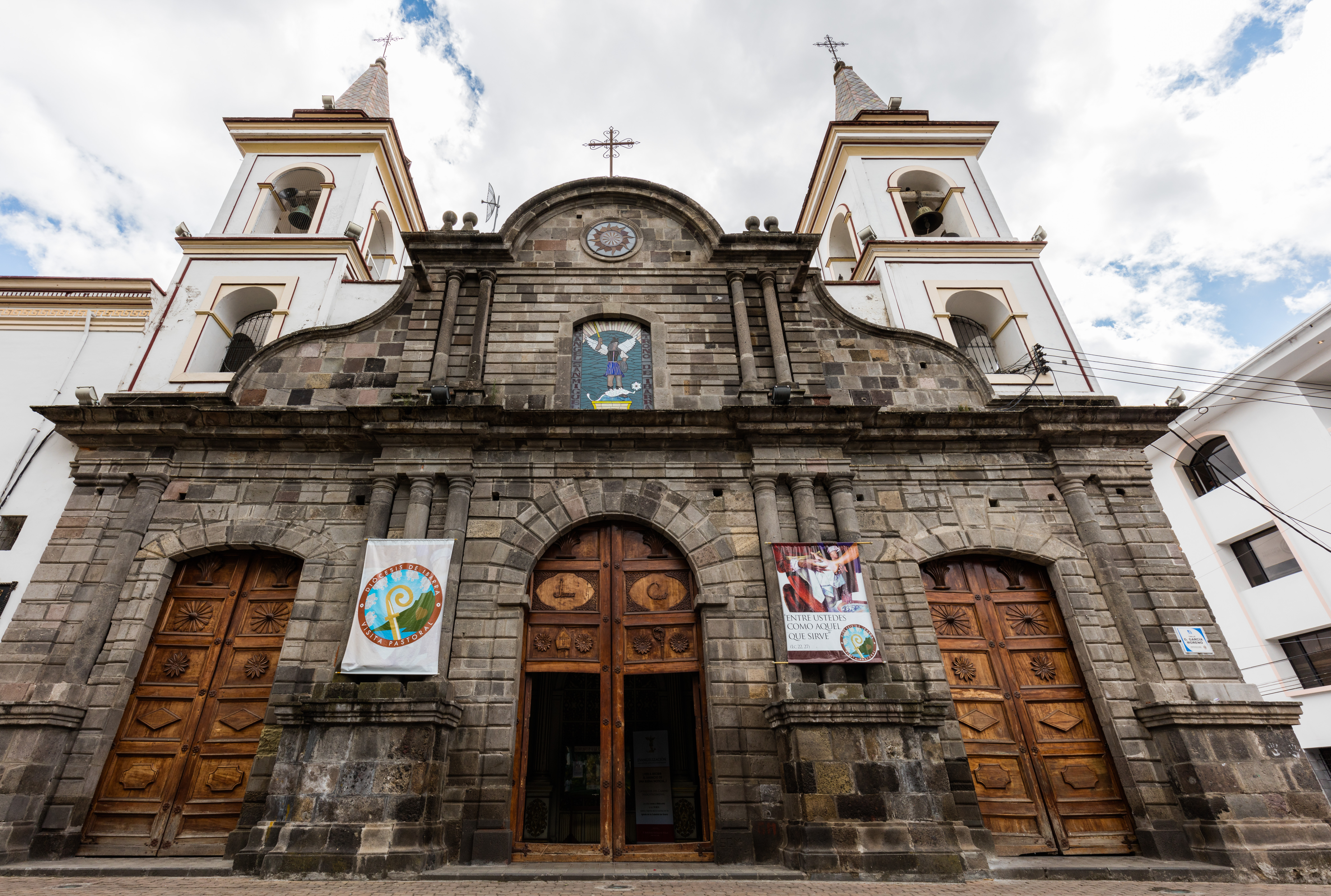 Church of the Cathedral, San Antonio de Ibarra, Ecuador